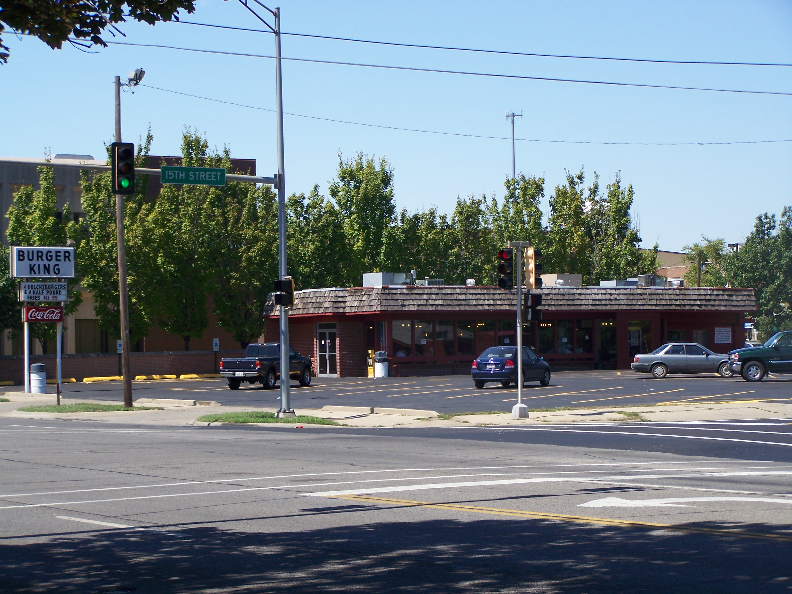 A photo I have taken of Burger King, Mattoon, Illinois for use in its related Wikipedia article.